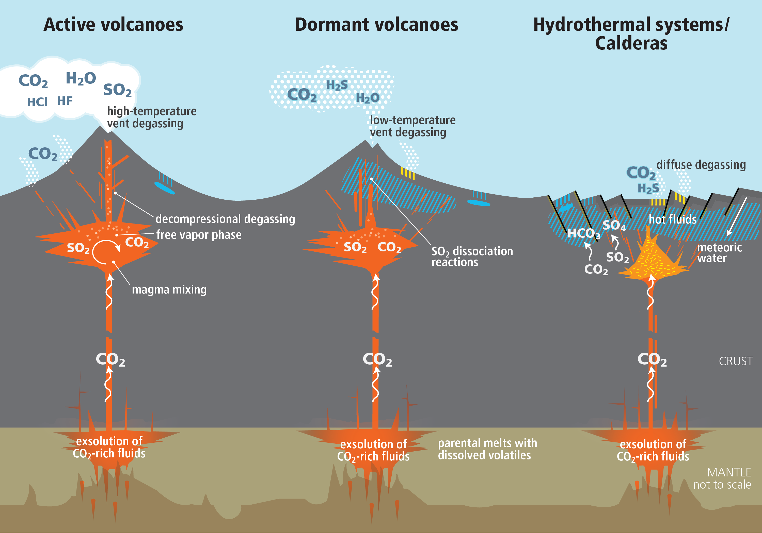 A simplified version of the conceptual models showing typical CO2 emission patterns from volcanic and magmatic systems. CO2 may be sourced from magma bodies deep in the crust, whereas other volatiles may remain largely dissolved in magma until much shallower depths. Visible plumes are typical for active volcanoes, whereas CO2 degassing from dormant/inactive volcanoes and hydrothermal systems is less obvious. Low-temperature degassing may or may not result in a visible plume even when CO2 is present. Significant quantities of CO2 are emitted from areas of diffuse degassing, and CO2 also reacts with groundwater.